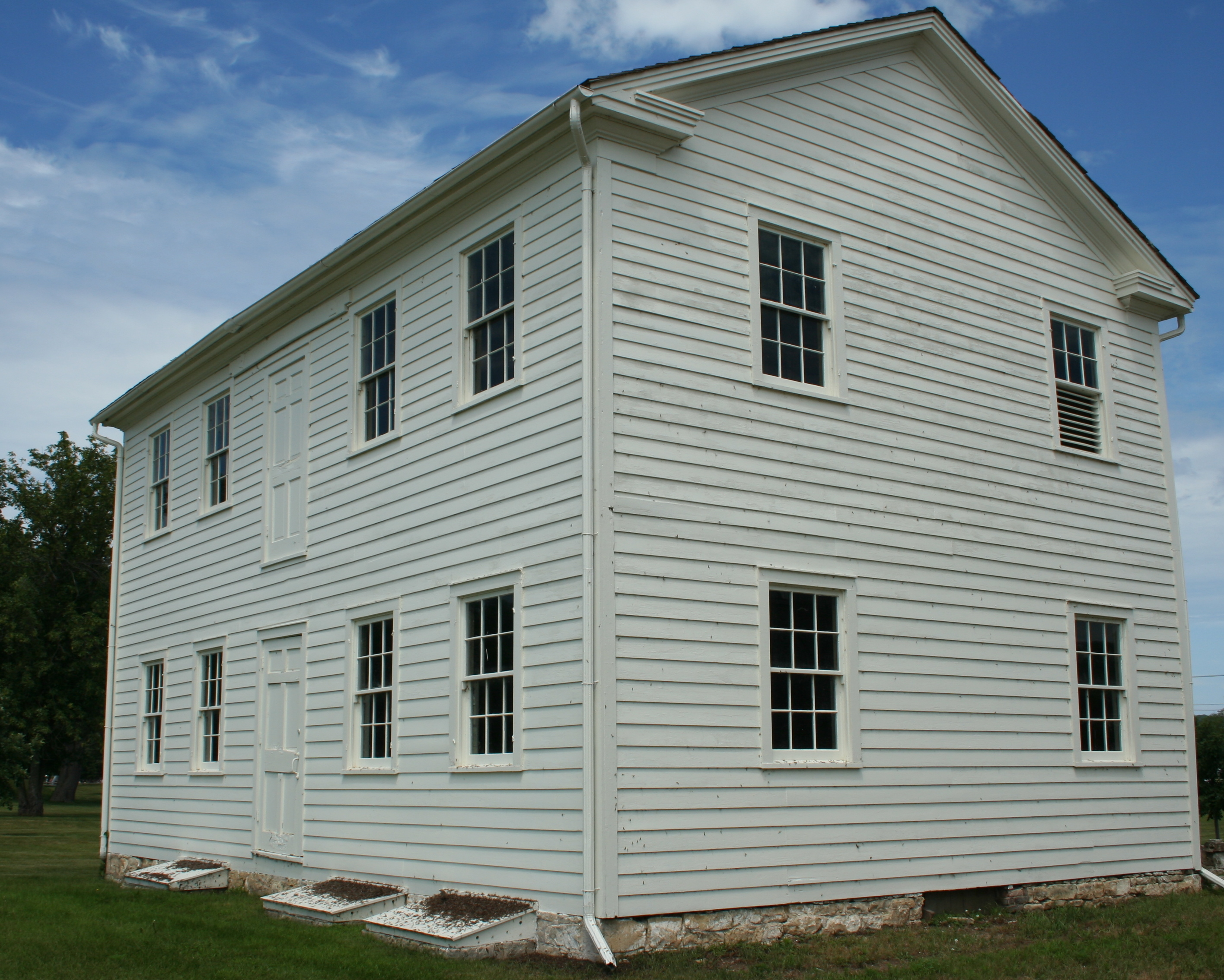 The historic Rolette House, seen from the southwest, on the corner of North Water and Fisher Streets on Saint Feriole Island in Prairie du Chien, Wisconsin